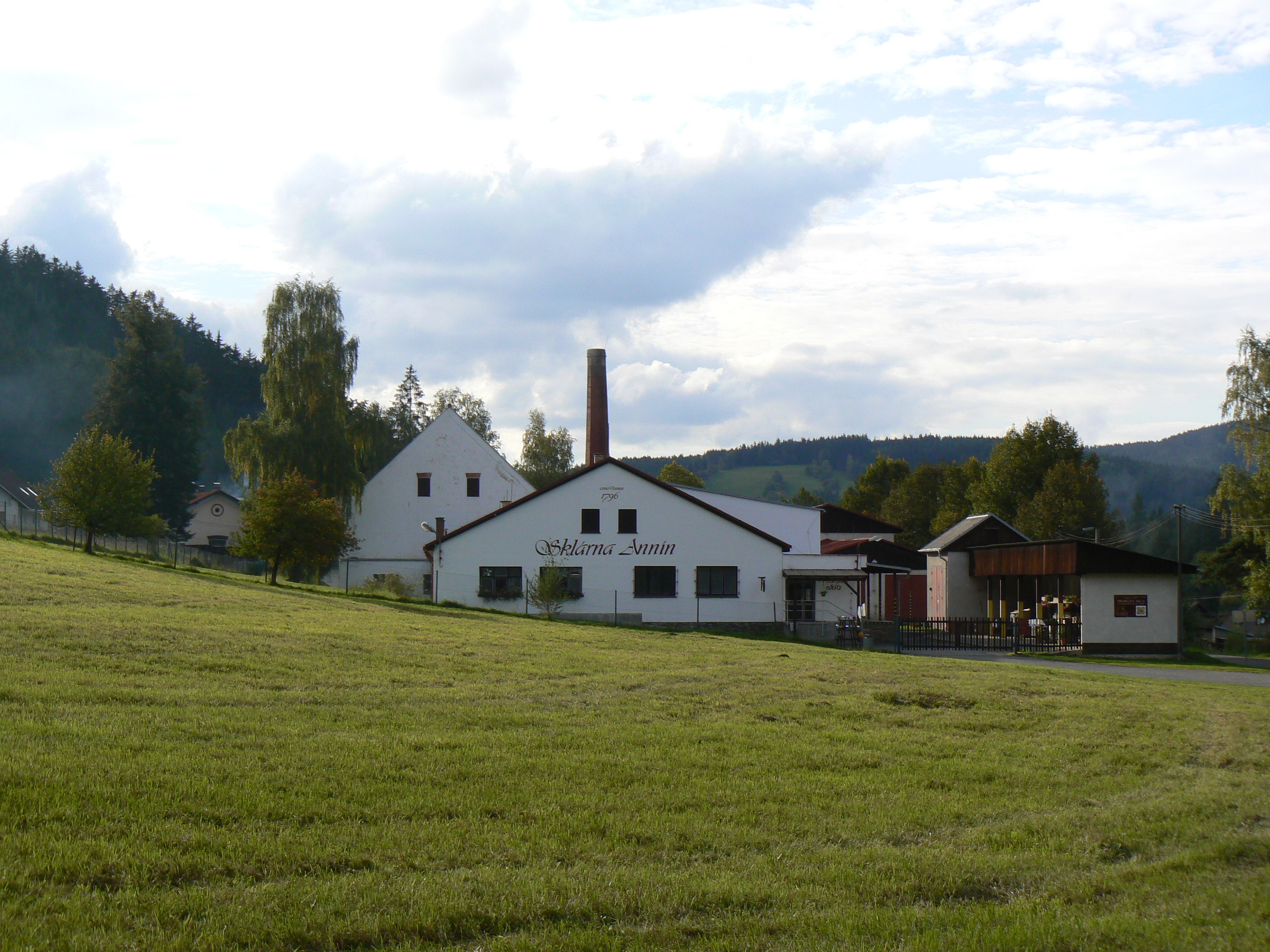 Glass factory of Annín, Sumava, Czech Republic